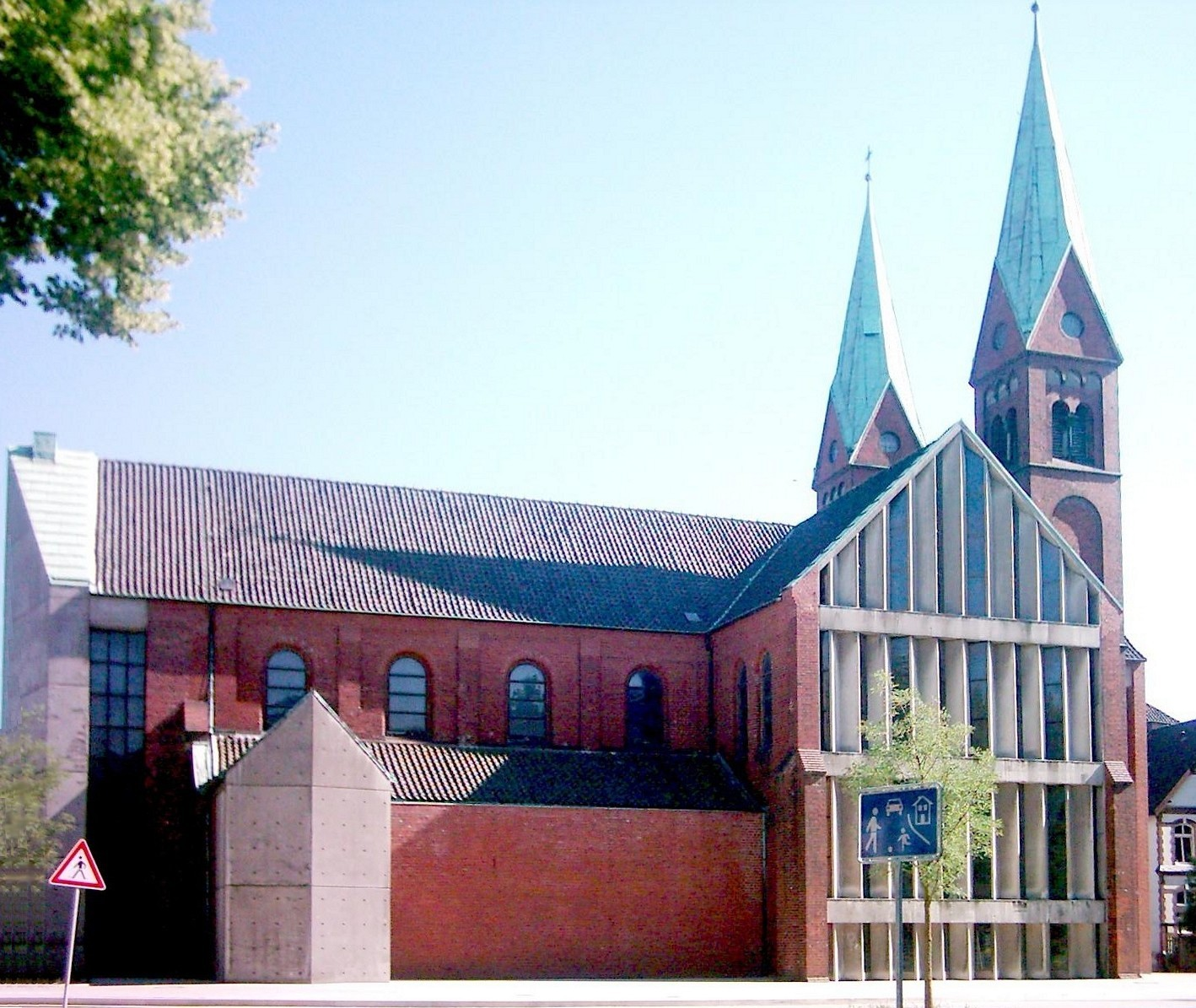 St. Bonifatius church , Hamburg, Germany.